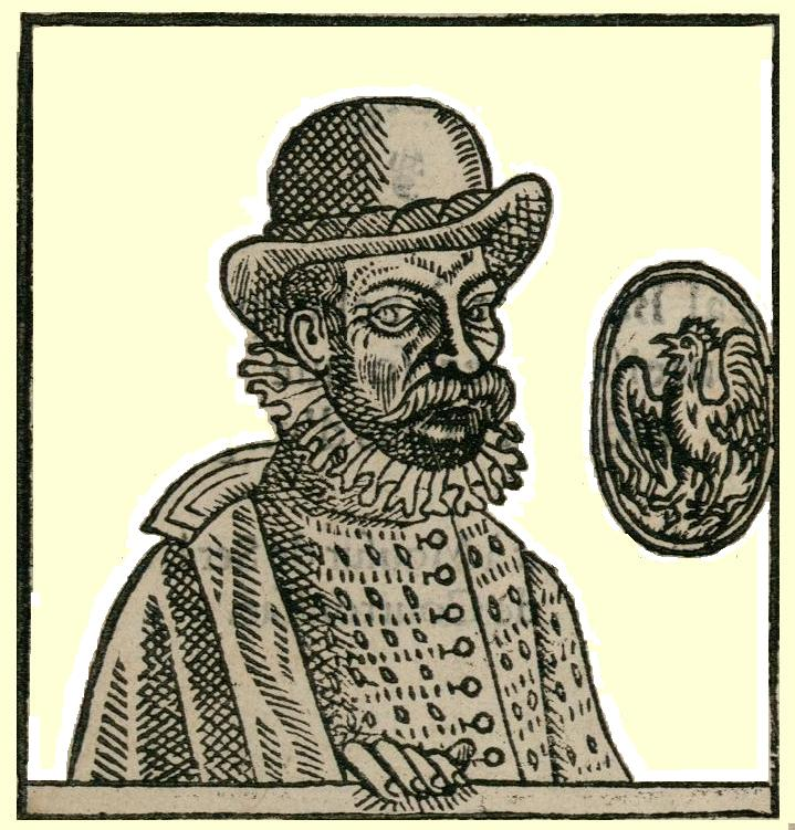 Augièr Galhard's picture (16th century)